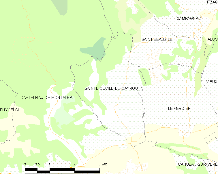 Map of French municipality Sainte-Cécile-du-Cayrou